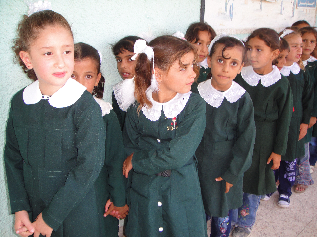 Palestinian children in the Gaza Strip have returned to school after summer break but faces overcrowding in classroom and shortages of supplies.